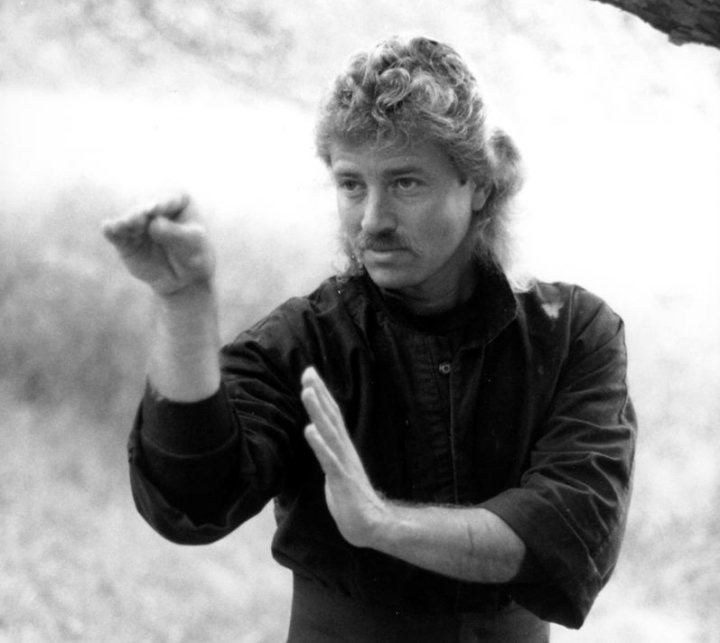 Tai Chi master Joey Bond (birth name Jeo Ruv) is a child hood friend of Michael Laucke. This Tai Chi program was the longest running “How To” series on the PBS Network and could be viewed from 1994-2002 . Bond is also a music composer; his CD release “Steel Dragonfly“ included the title track “Jade Pillow”. Joey Bond also wrote a book entitled; “See Man Jump See God Fall Tai Chi vs. Technology, released in 1999. And he is also an accomplished Magician/Mentalist, a graduate of the prestigious Magic Castle in Hollywood, California. Note for copyright purposes, this photo was taken by an employee who was also a photographer hired by Michael Laucke. It is a work for hire, owned and paid for by Michael Laucke. It is hereby licensed under Public Domain Dedication (CC0); ALL RIGHTS WAIVED!